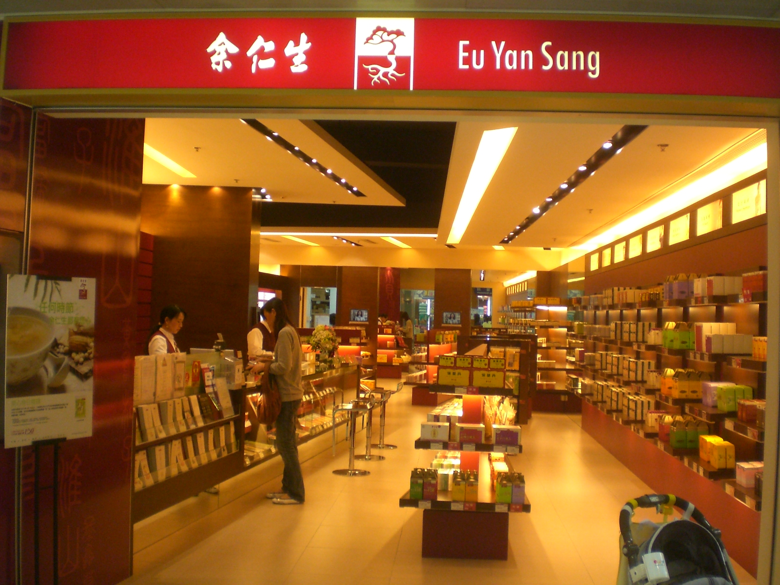 將軍澳, 新都城